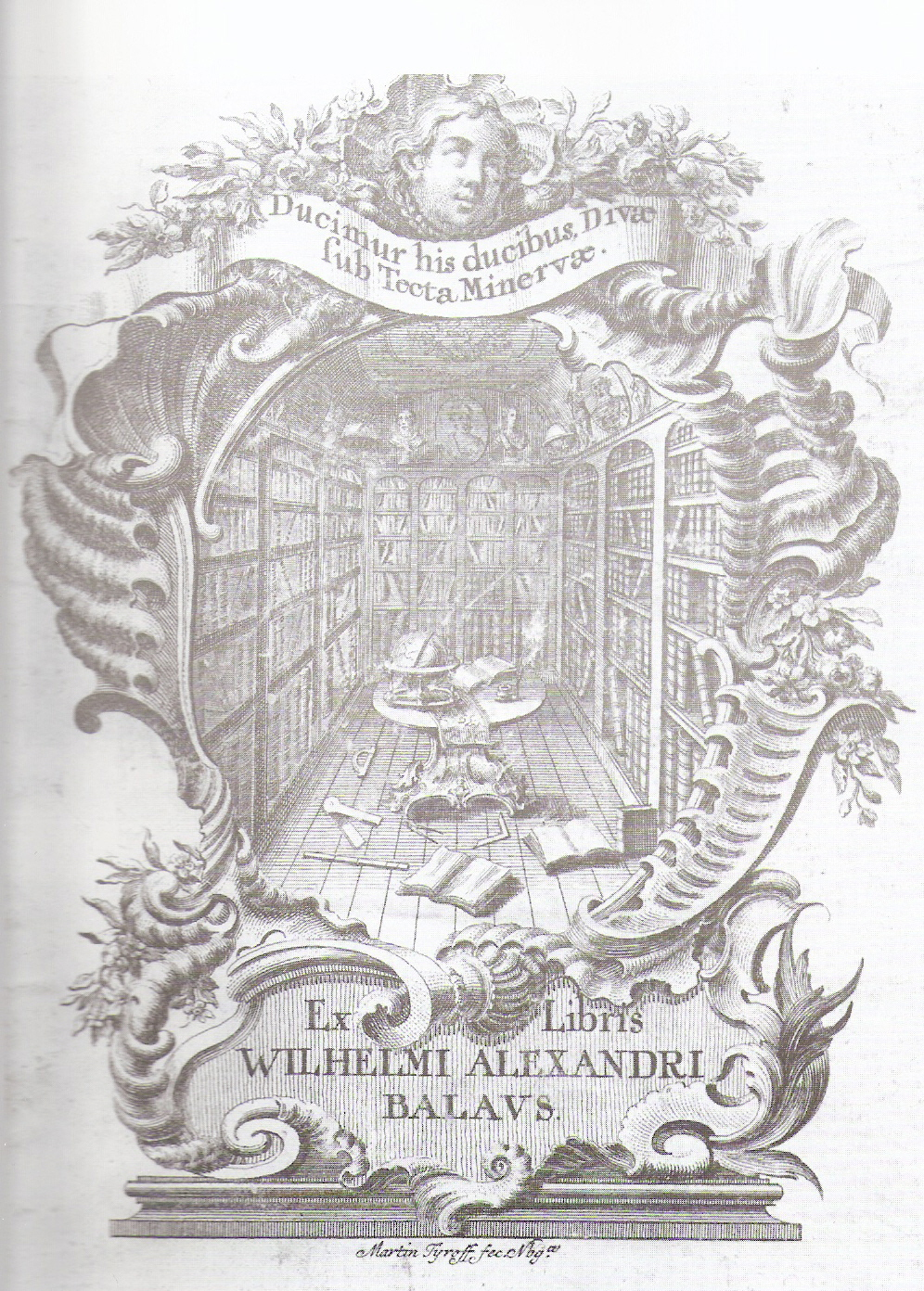 Balaus, Wilhelm Alexander (1753) ex libris copperplate: 200x145 mm, maker: Tyroff, Martin